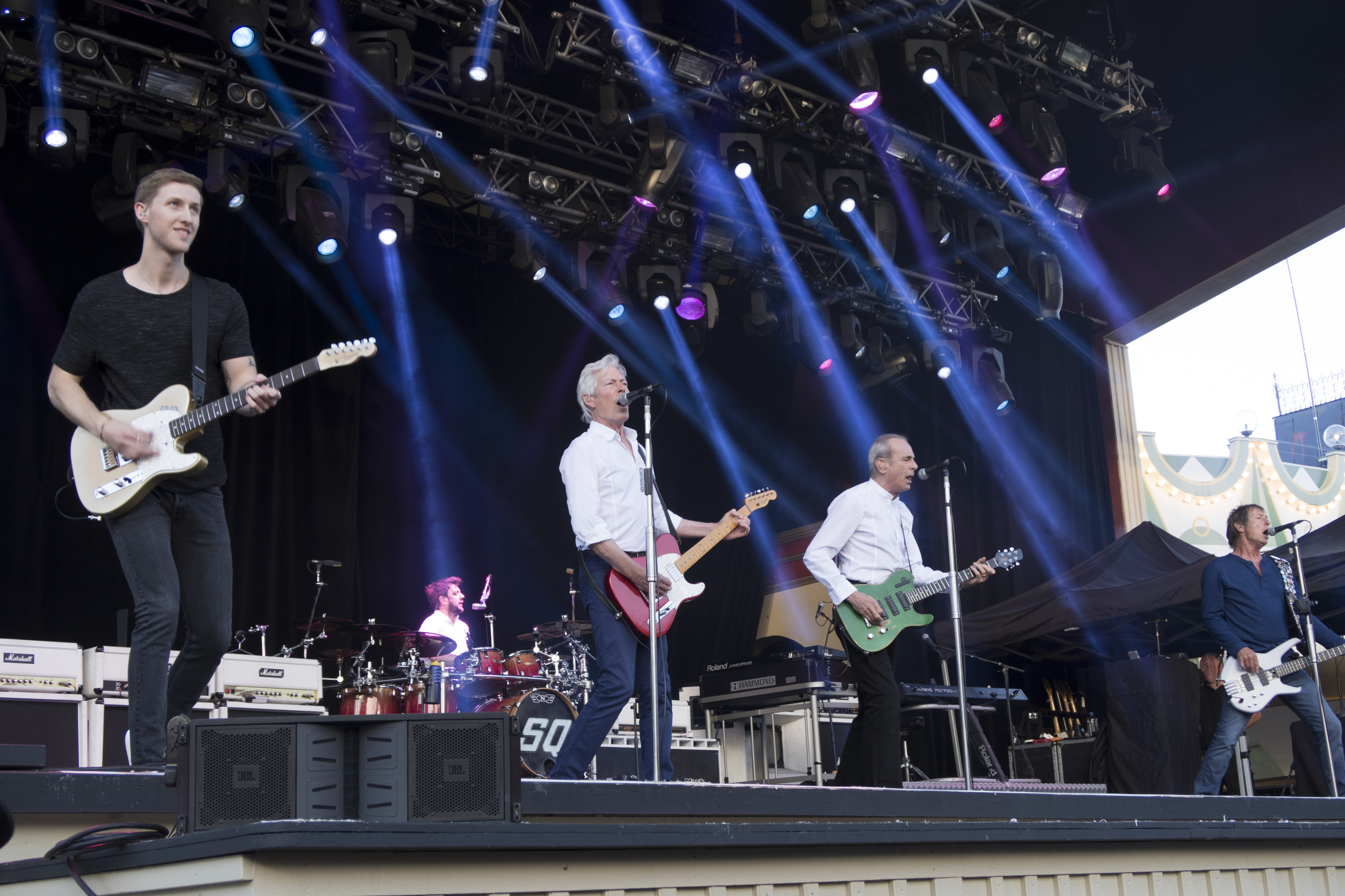 Status Quo, with Freddie Edwards standing in for Rick Parfitt, live at Gröna Lund, Stockholm, Sweden, 2016-07-03. From left to right: Freddie Edwards, Leon Cave, Andy Bown, Francis Rossi, John "Rhino" Edwards^.